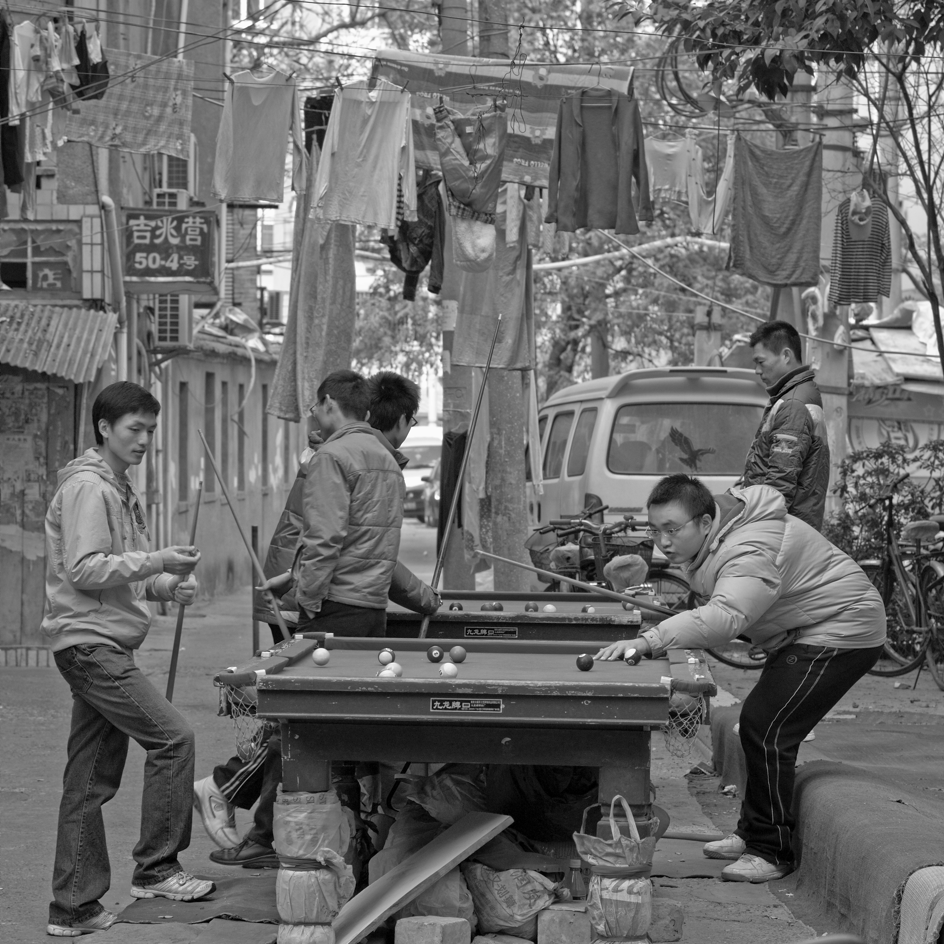 Young Chinese people are playing pool in the street of Nanjing. China.